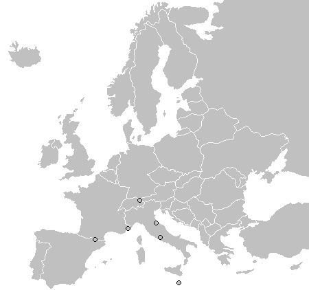 A map of Europe as of 2005, with country outlines. Sovereign microstates less than 2 500 km² in area are depicted as circles.